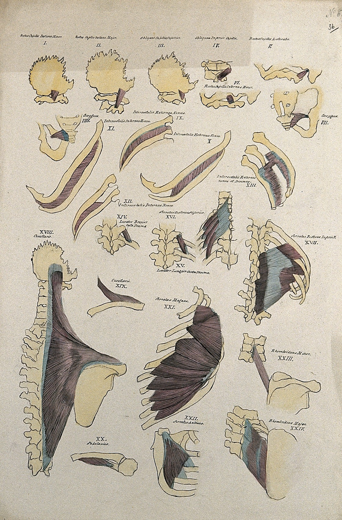 Costal and shoulder muscles: 24 figures. Pen and ink drawing with watercolour, 1830/1835?, after line engraving by A. Bell, 1777/1778, after B.S. Albinus, ca. 1747. Iconographic Collections Keywords: Bernhard Siegfried Albinus; Andrew Bell